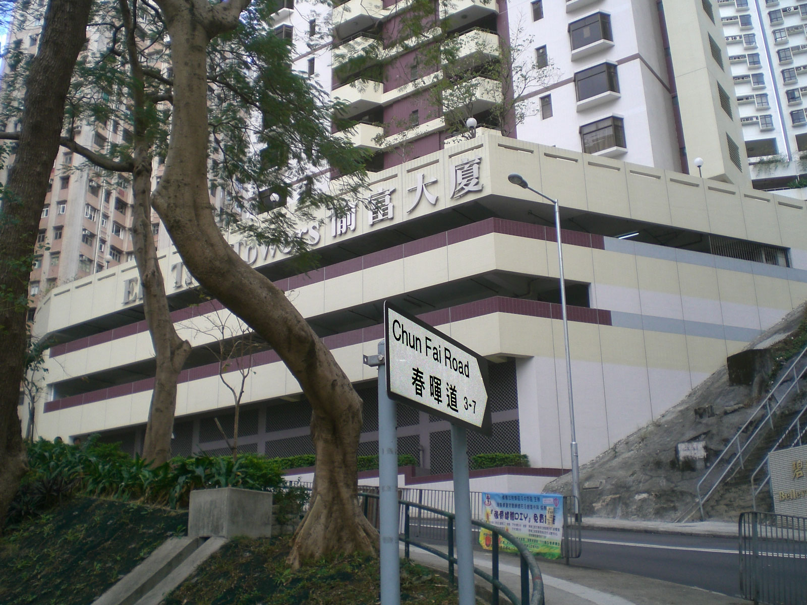 大坑 渣甸山 春暉道 愉富大廈